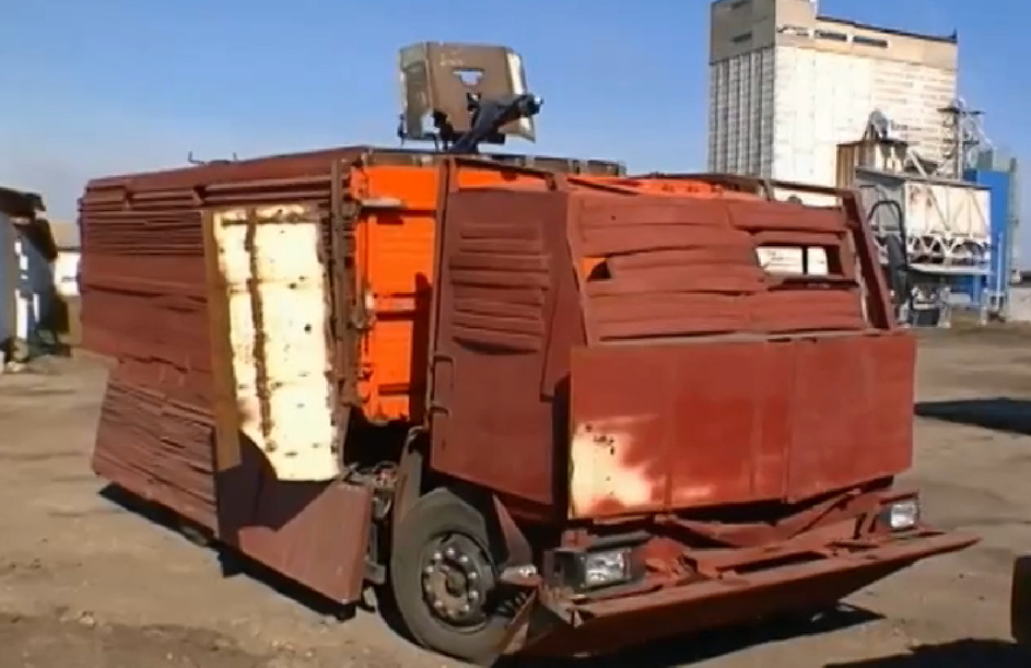 Makeshift IFV in «Aidar» battalion.